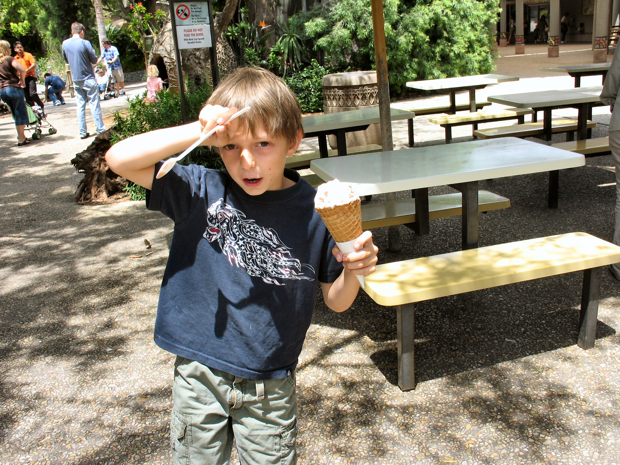 A child attempts to mitigate the effects of an ice-cream headache by putting his hand to his forehead and dancing the pain away. Photo taken with a Canon PowerShot G6 digital camera.